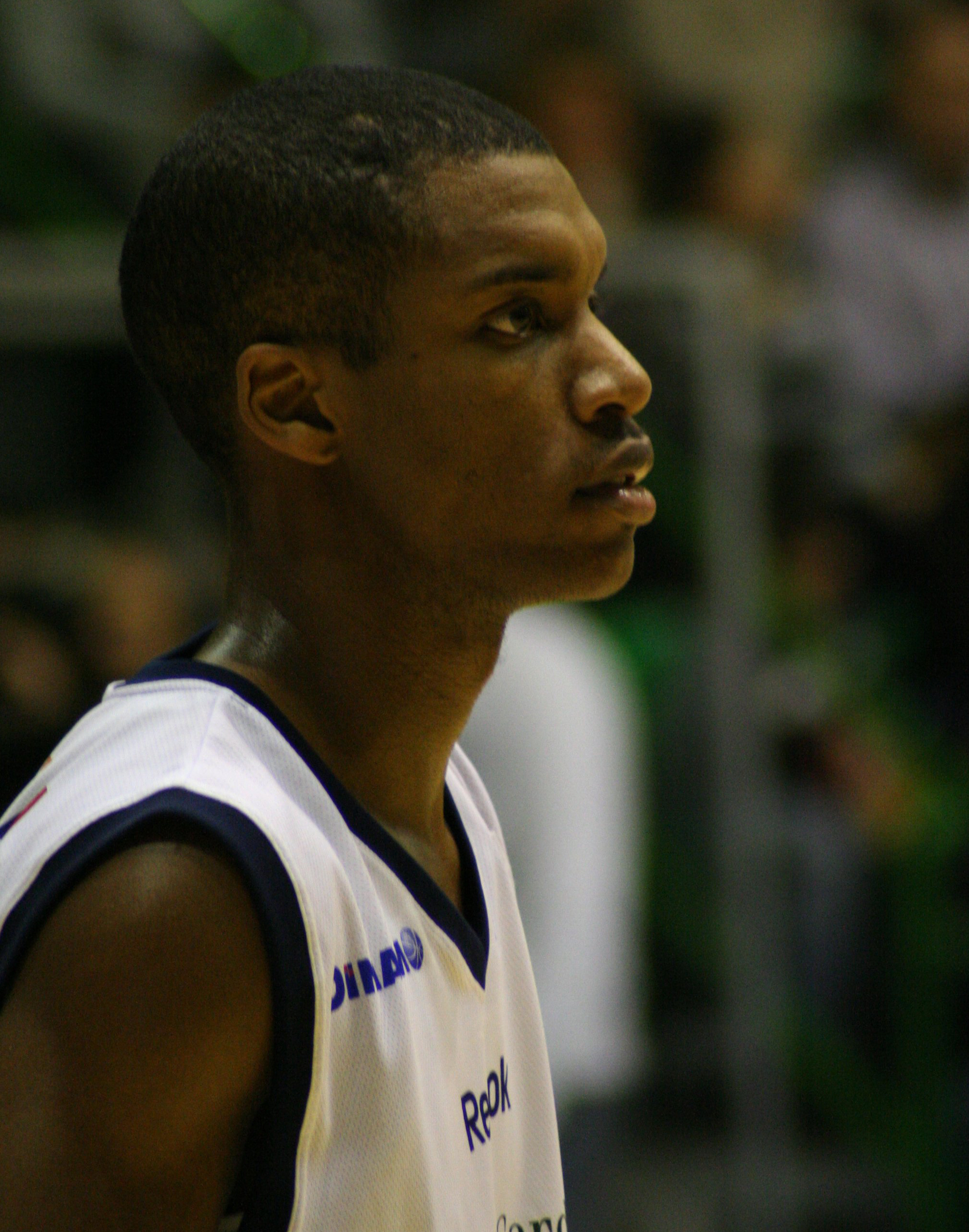 Basket player of Dinamo Sassari Jason Rowe